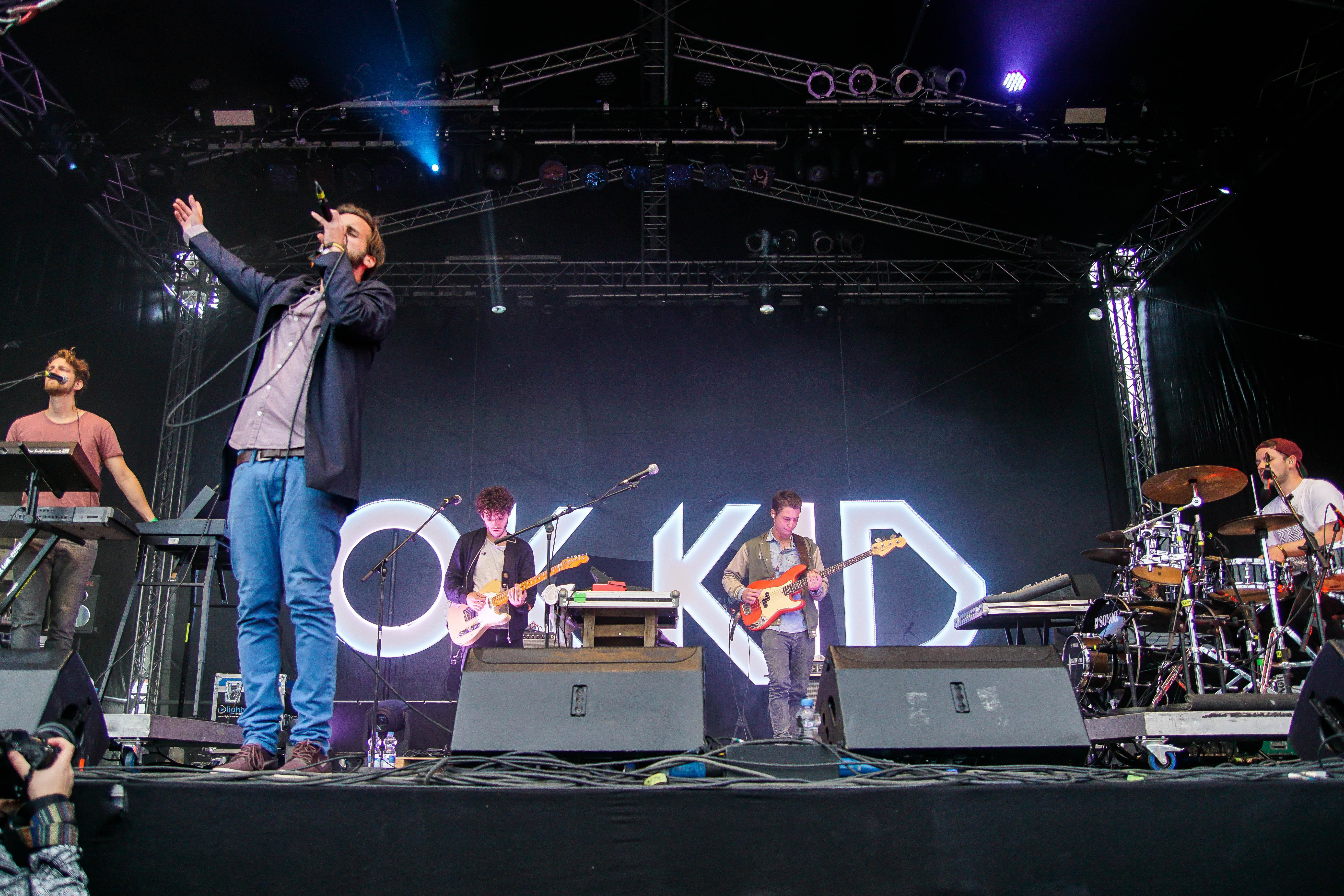 OK Kid at the festival Rocken am Brocken 2015, Elend, Germany